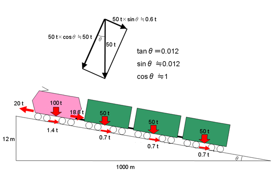 Diagram showing tractive force of a locomotive and train resistance of rolling stocks in a gradient section, Japanese